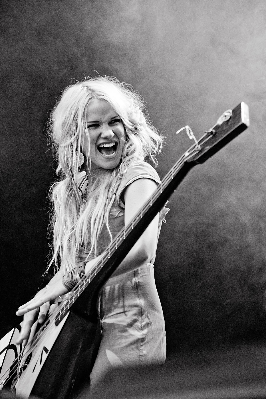 Depicted person: Solveig (Sol) Heilo